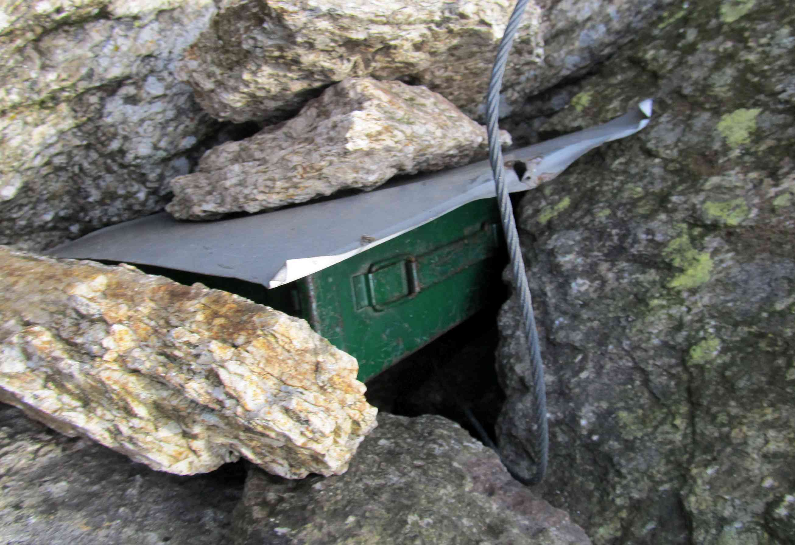 Monte Brunello (Cottian Alps, TO, Italy): summit register